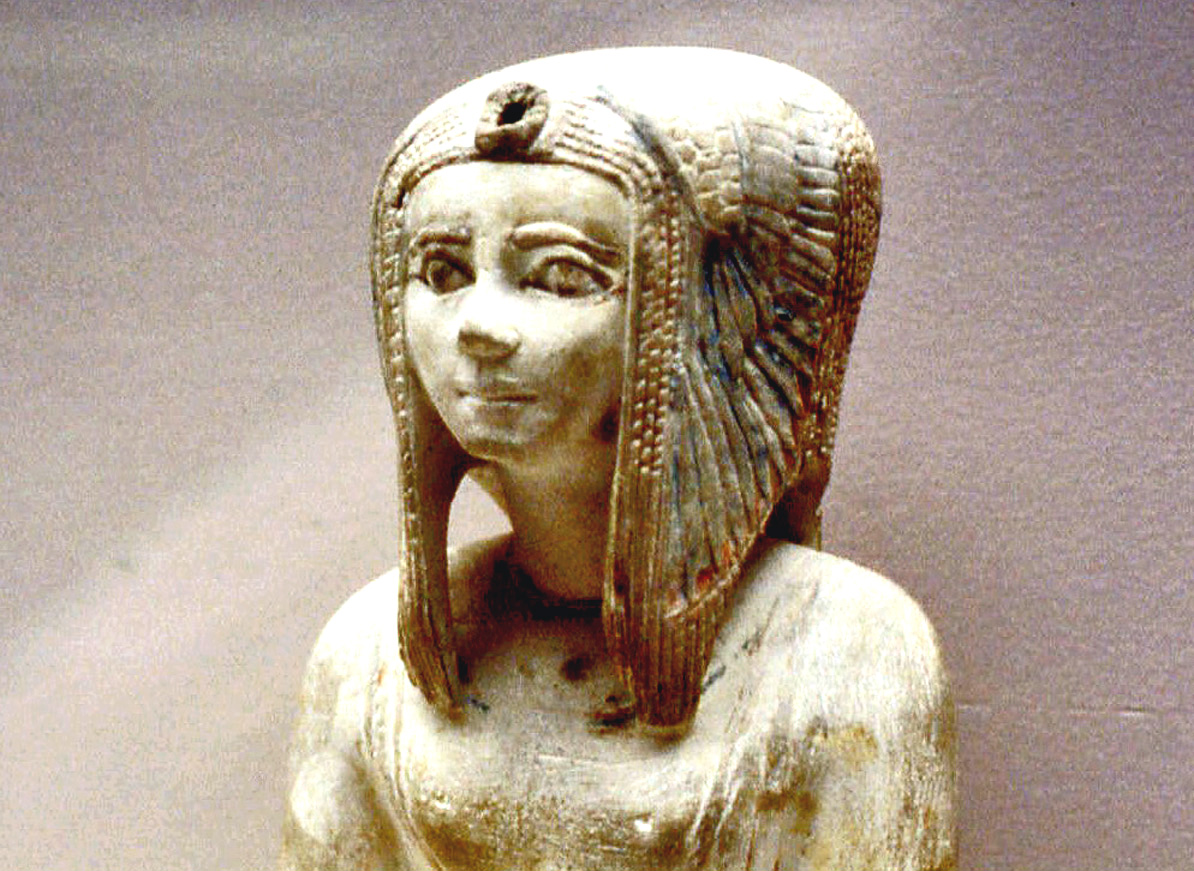 Statuette of Queen Tetisheri, wife of Senakhtenre (?) and mother of Seqenenre Tao, believed to come from Dra Abu el-Naga. • Material: painted limestone. • Dimensions: Height 37 cm. • Conservation: London. British Museum, 22558. Currently this statue of the British Museum, is regarded as a FORGERY. Bibliography: Davies. "The statue of Queen Tetisheri"